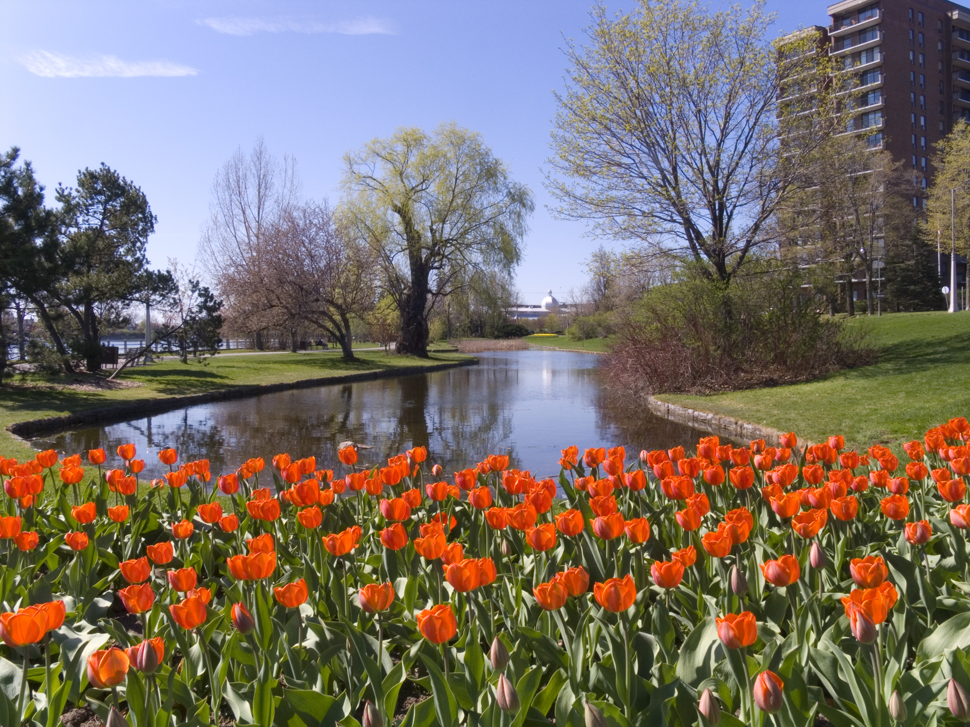 The Ottawa Tulip Festival is one of the biggest in the world with over 3 million tulips. Ottawa provided a safe haven for members of the Dutch royal family during World War 2 who began a tradition of gifting thousands of tulip bulbs each year to the people of Canada to symbolize international friendship. The Rideau Canal is on the upper left. On the horizon there is the Aberdeen Pavilion or 'Cattle Castle' and the Lansdowne Park stadium . This pond used to contain a resident population of mega-gigantic fish. They had not put them back in when this photo was taken, I am assuming these fish spend the winter indoors somewhere?